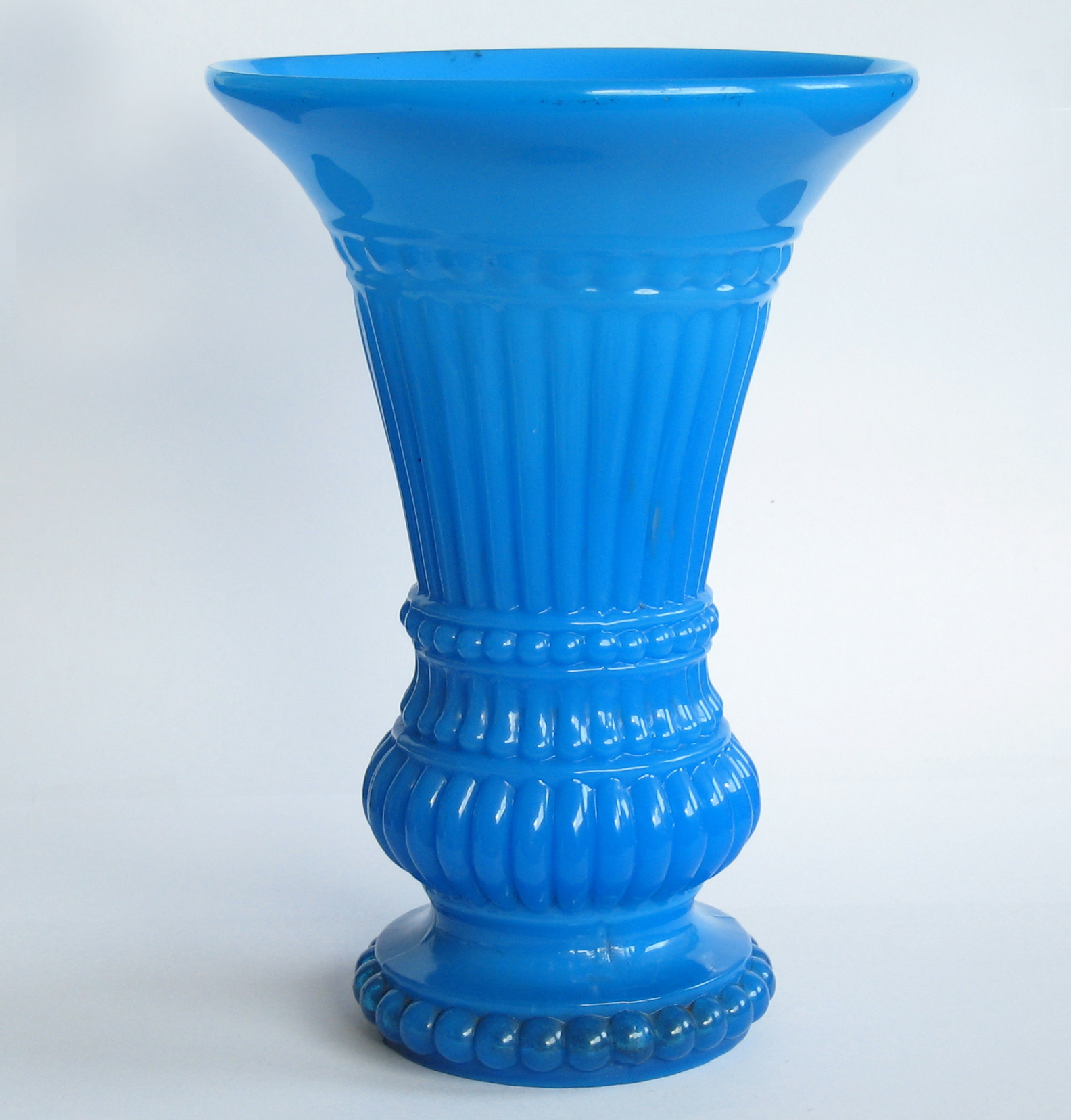 mold-blown vase (milk-glass), dated around 1840